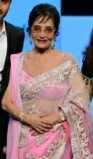 Shaina NC, Ranbir Kapoor, Sadhana, Aditi Rao Hydari at the Cancer Patients Aid Association's fashion show by Shaina NC